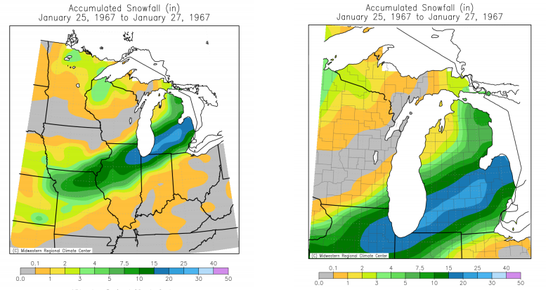 Snowfall totals with the 25-27 Chicago Blizzard in the USA.